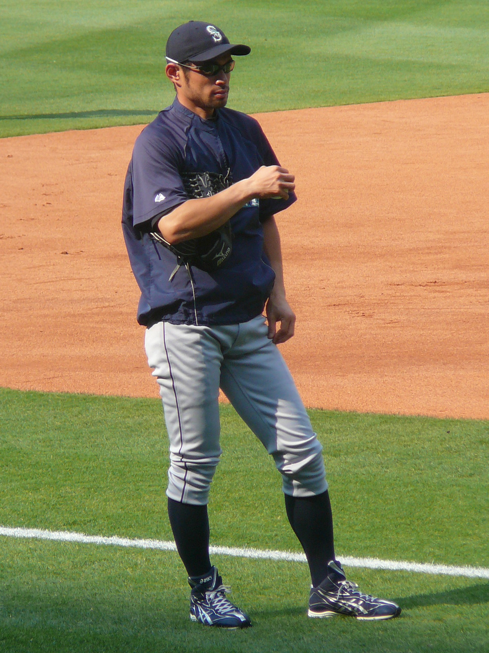 Please attribute photo with author's name if used somewhere other than Wikipedia. 19:20, 3 August 2008 . . Chrisjnelson . . 960×1,280 (974 KB)